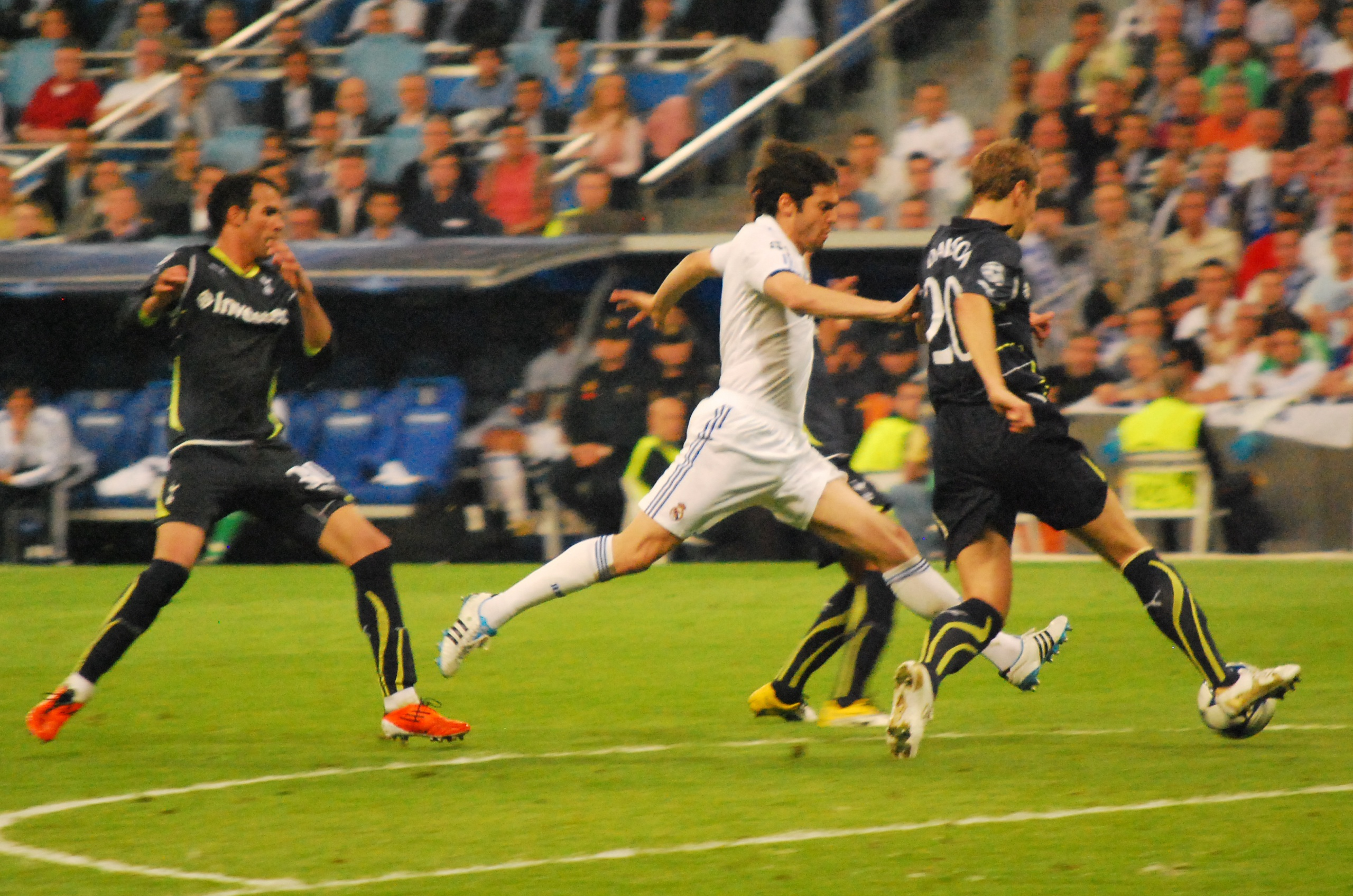 Kaka and Real Madrid against Tottenham in the UEFA Champions League.